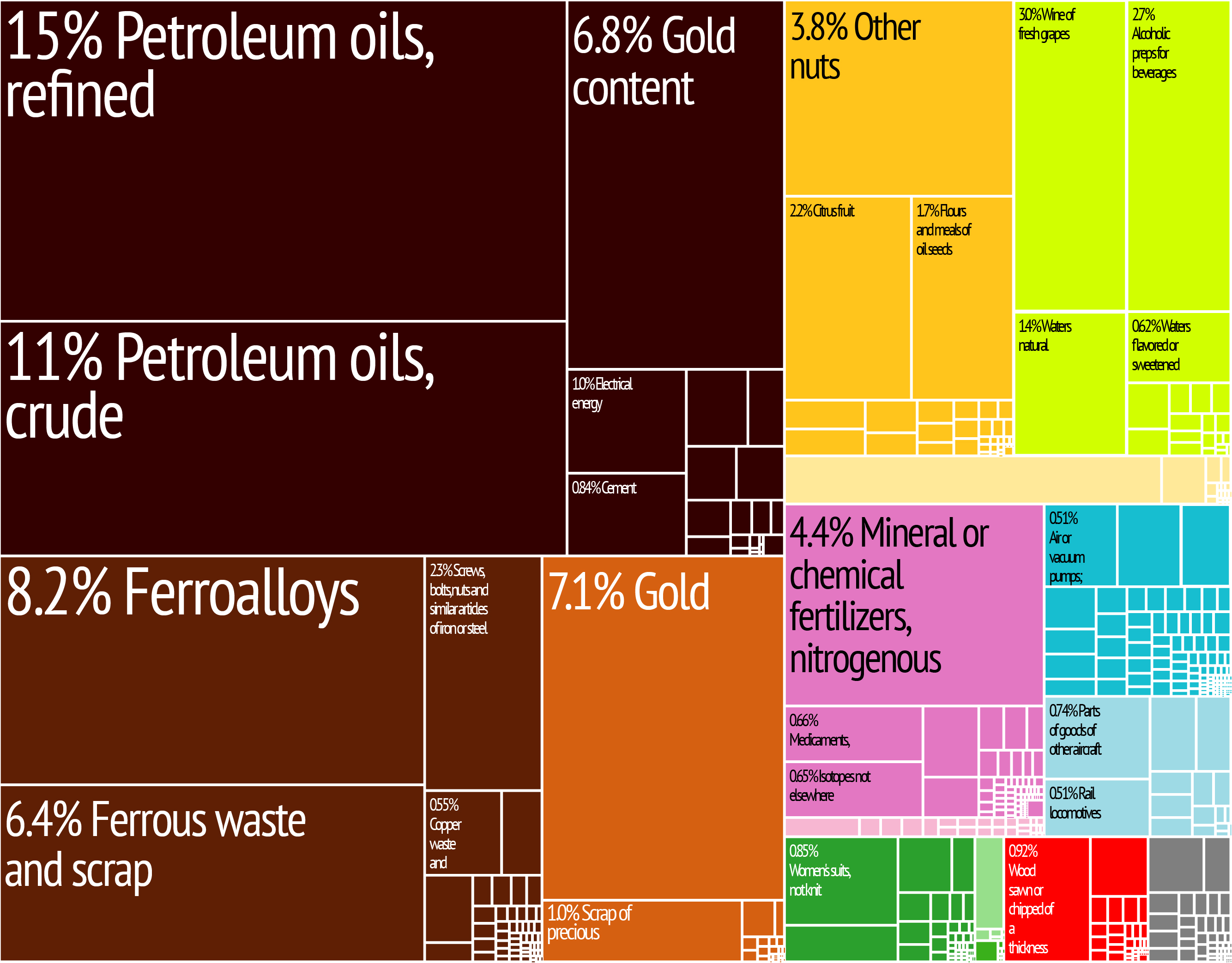 Georgia Export Treemap from MIT Harvard Economic Complexity Observatory